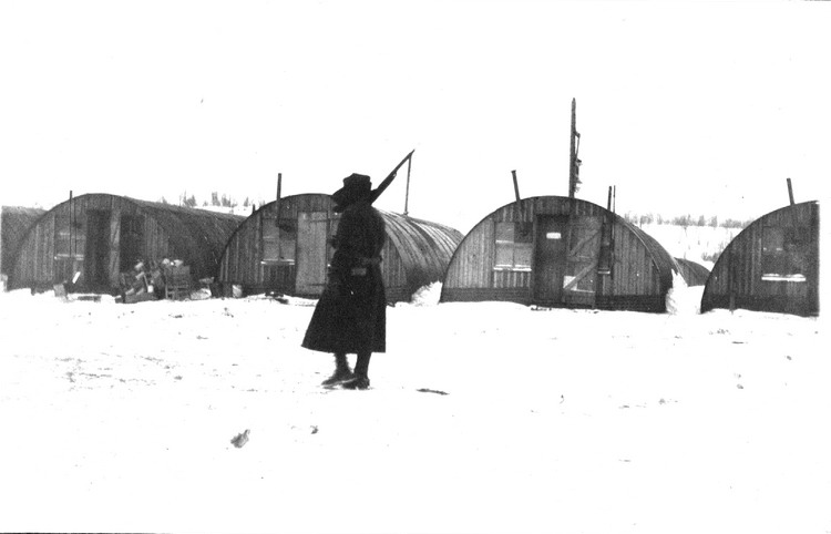 14 The Arctic Sentinel